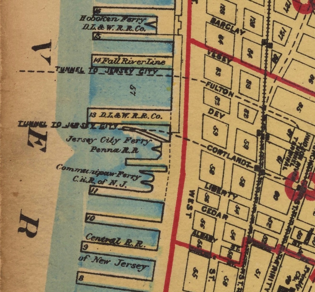 Section index, Battery to 14th St., from: Atlas of the Borough of Manhattan City of New York. Desk and Library Edition. (Philadelphia: G. W. Bromley and Co., 1921)